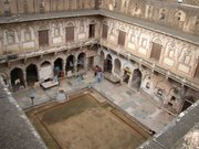 Centre Courtyard